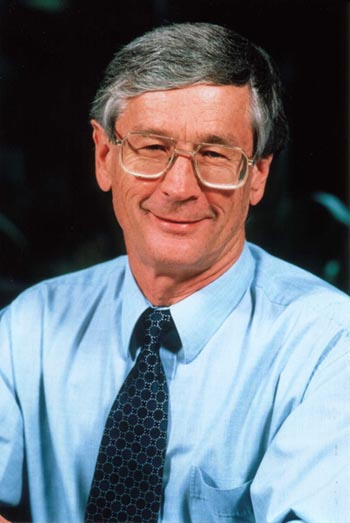 Dick Smith